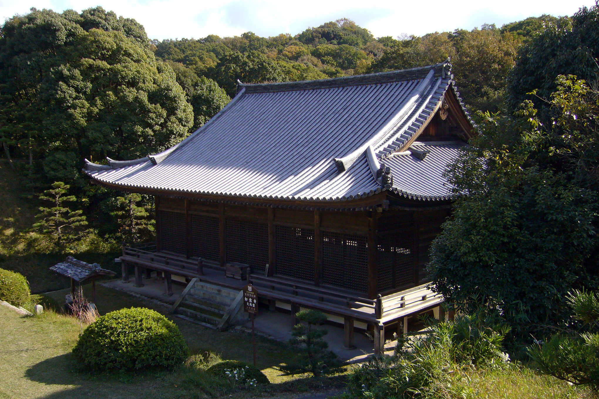 Nyoiji in Kobe, Hyogo prefecture, Japan